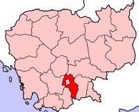 Map of the province Kandal of Cambodia